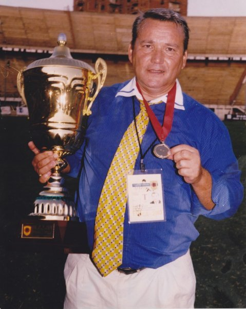 Zoran as a head coach won the Cup of Angola with FC Inter Luanda